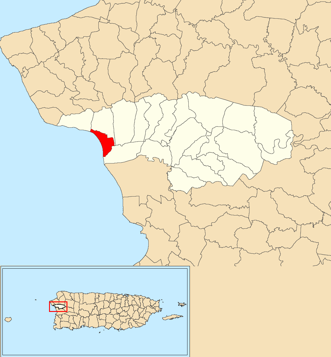 Playa, Añasco, Puerto Rico locator map